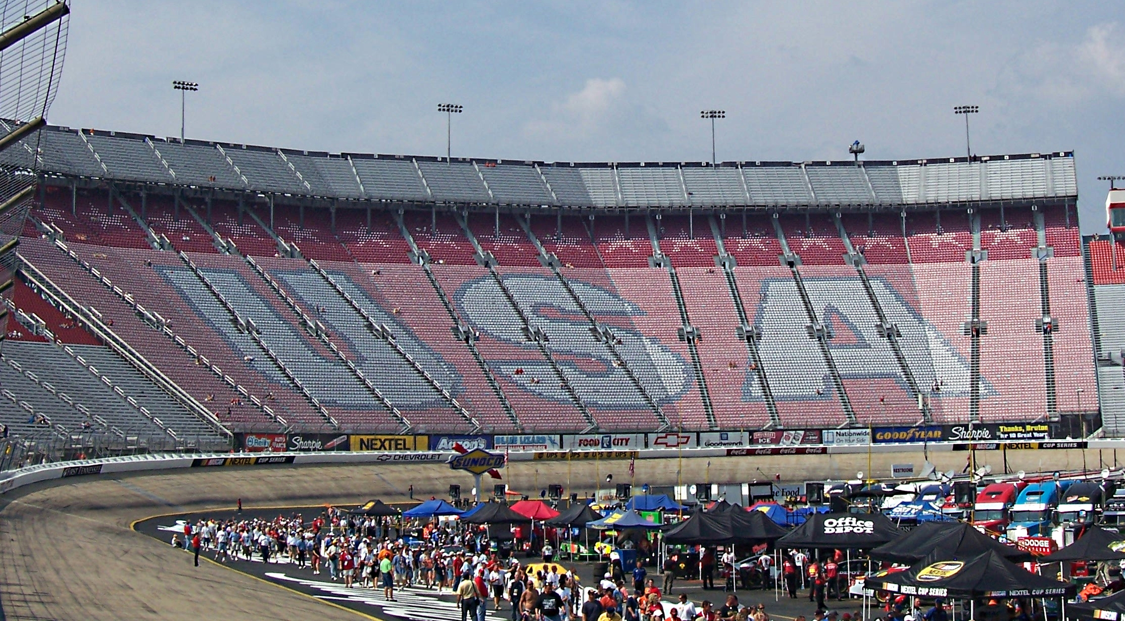 Picture taken by myself with a KODAK Easyshare CX7530 digital camera on August 26, 2006 before the Sharpie 500.